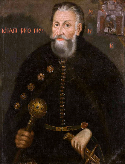 Stanisław Żółkiewski